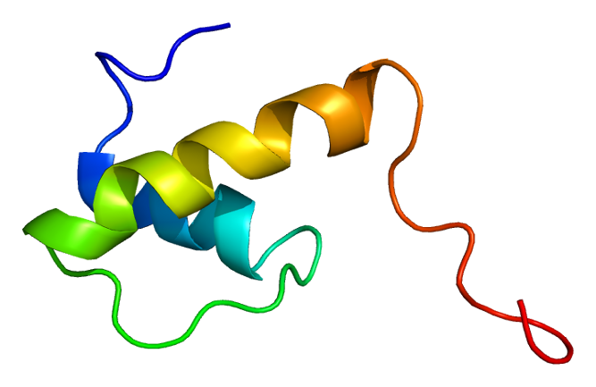 Structure of the EMD protein. Based on PyMOL rendering of PDB 1jei.